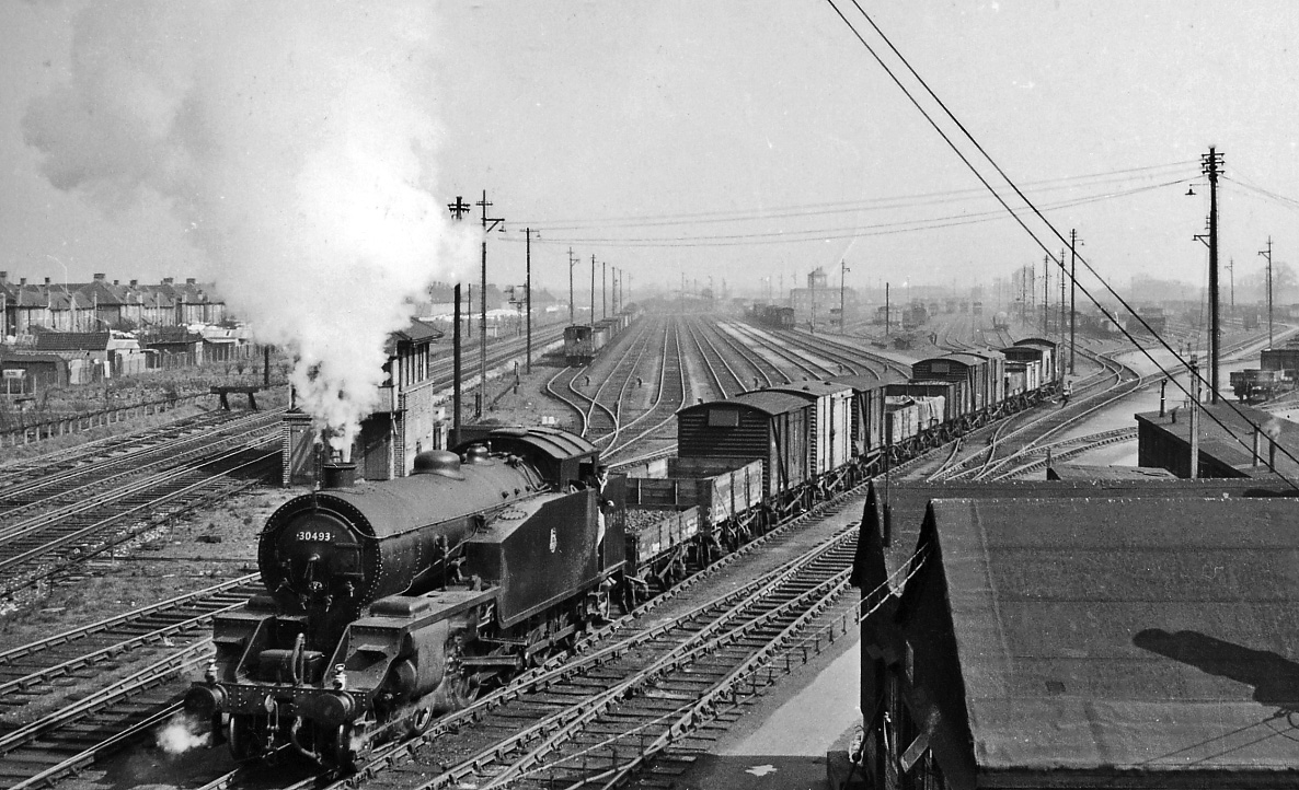 Feltham Marshalling Yard, with SR 4-8-0T shunting. View eastwards, towards London: Clapham Junction etc.; ex-LSW 'Windsor Lines'. One of the largest marshalling yards in the country, Feltham was purpose-built by the LSWR in 1921-22 to handle almost all the freight traffic to and through London on the Southern Railway Western Section - about 5,500 wagons per day. The locomotive is No. 30493 (built 7/21, withdrawn 12/59), one of the Urie G16 class of four 4-8-0Ts specially built for shunting over the humps of the Feltham Up and Down Yards: it is working the Down Yard and passing Feltham East Box, the main line being on the left and the Up Reception lines next to it. All this complex was completely swept away by January 1969 and became a Nature Reserve.